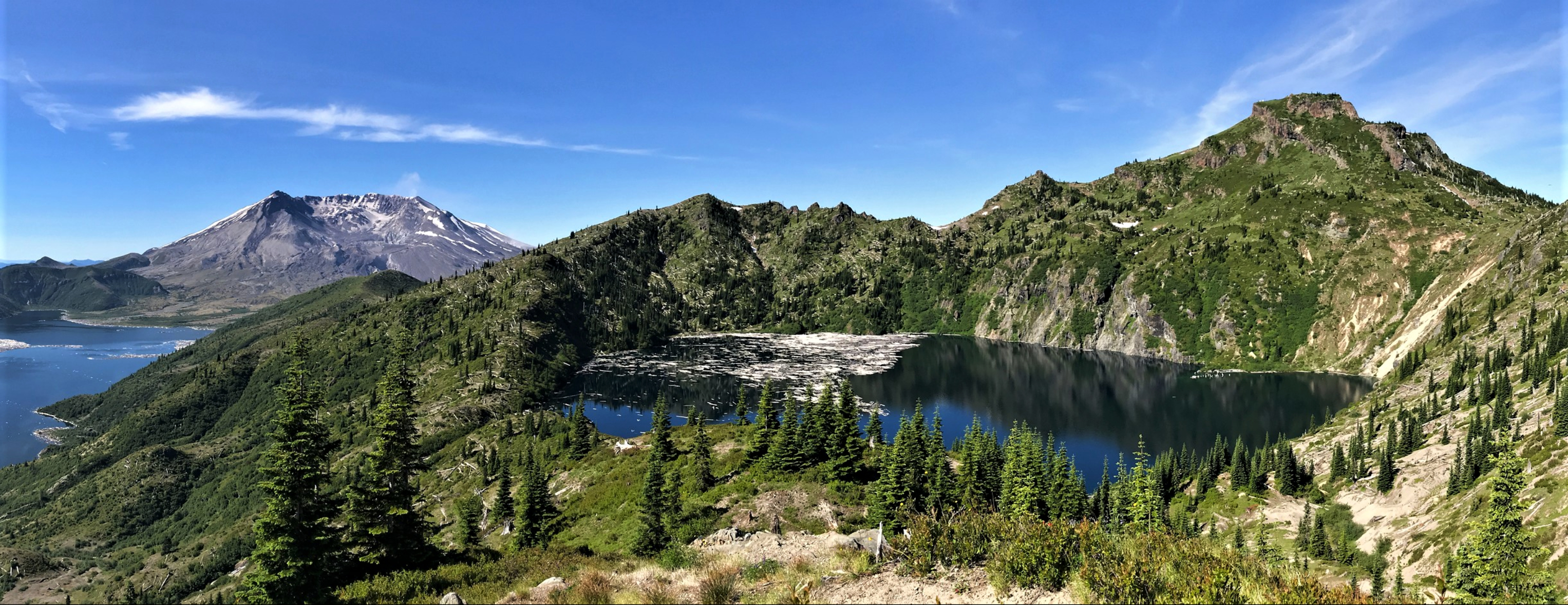 St Helens backcountry with Coldwater